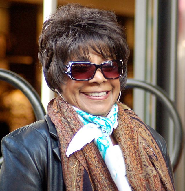 Merry Clayton at a ceremony for Carole King to receive a star on the Hollywood Walk of Fame.